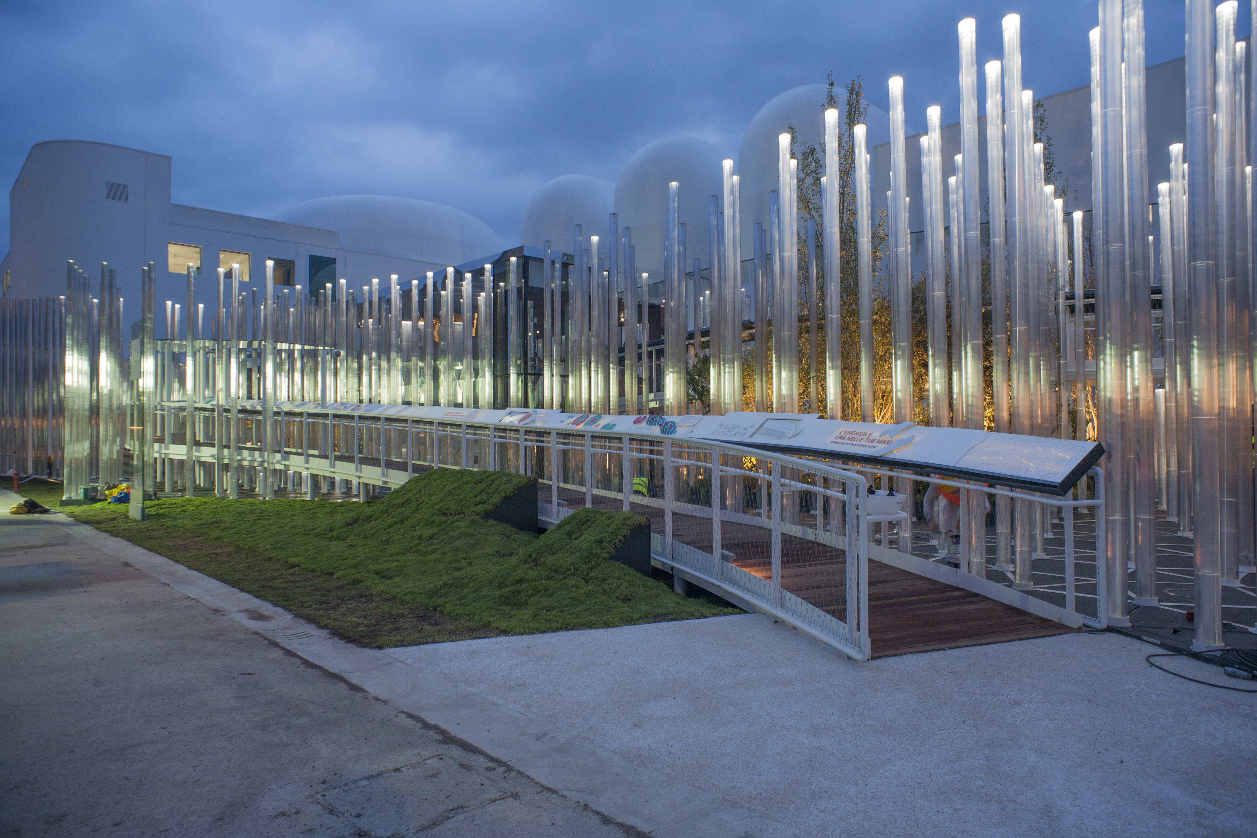 Enel Pavilion, Expo 2015, Milan, Italy